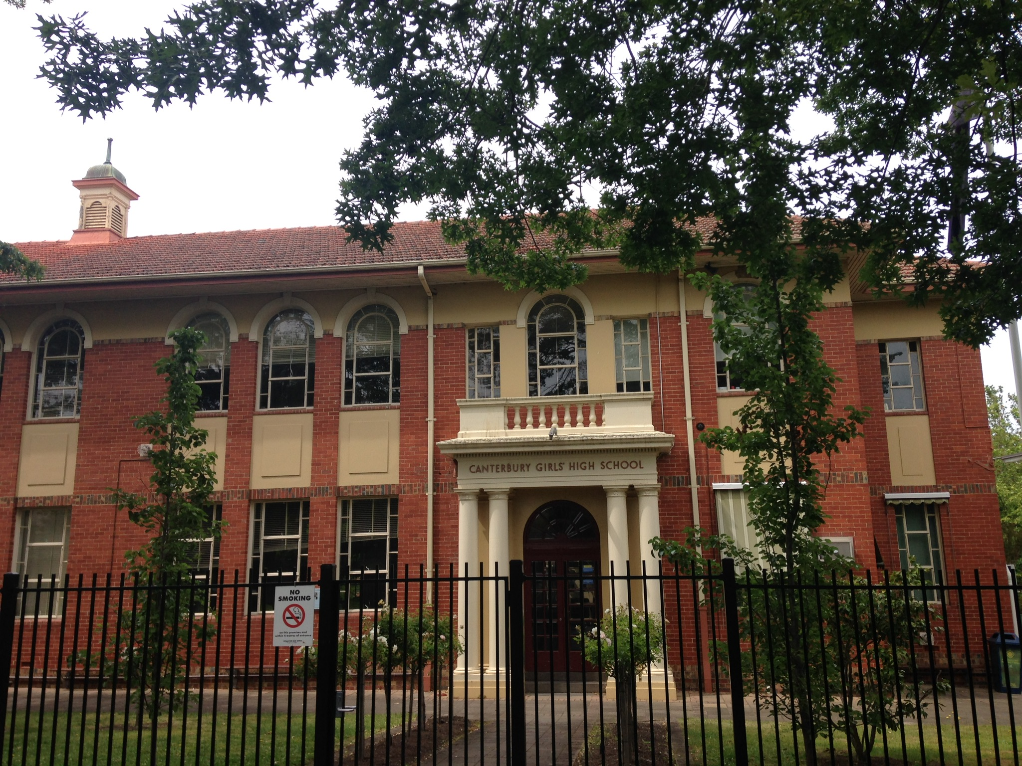 The entrance to the Canterbury Girls's Secondary College, located in Canterbury, Victoria, Australia. The school opened in 1928 as East Camberwell Domestic Arts (Girls') School.